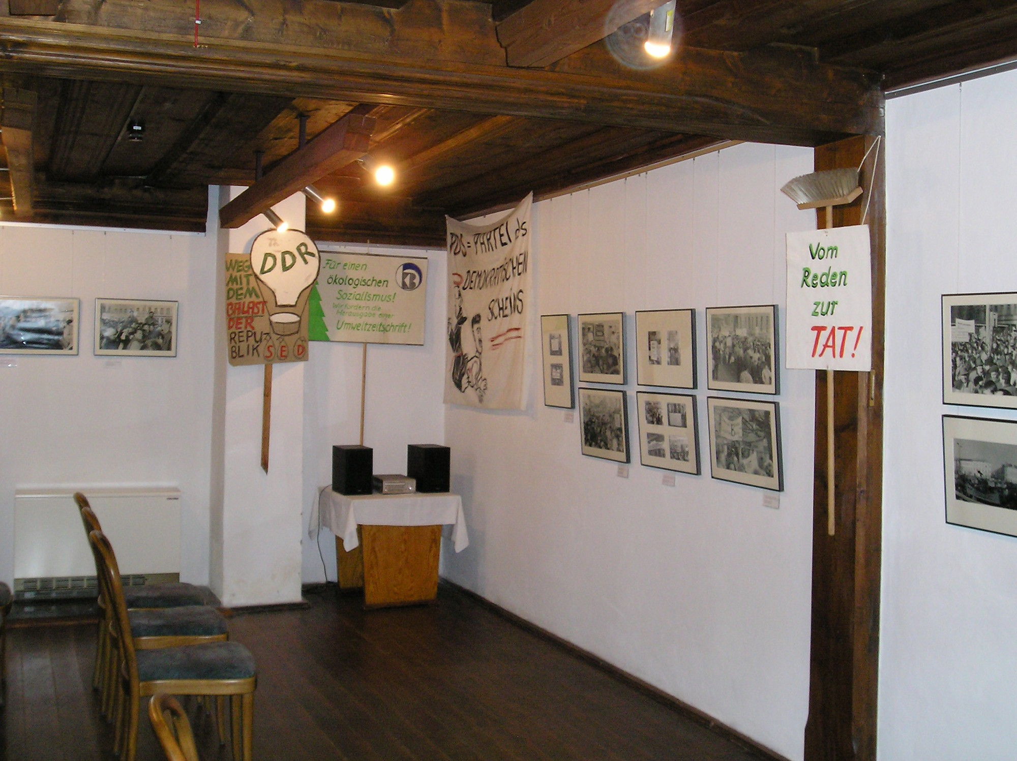 View into the exhibition about the political overthrow in the years 1989/90 in Meiningen, germany.